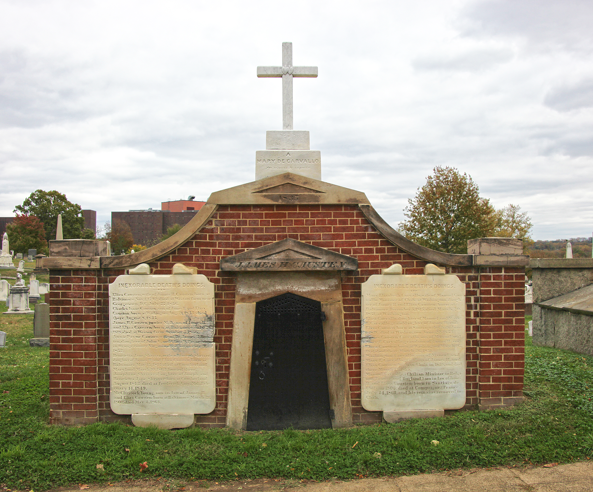 The Causten family vault at the Congressional Cemetery in washington DC, directly west of the Public Vault. Dolley Madison was interred in both these vaults.